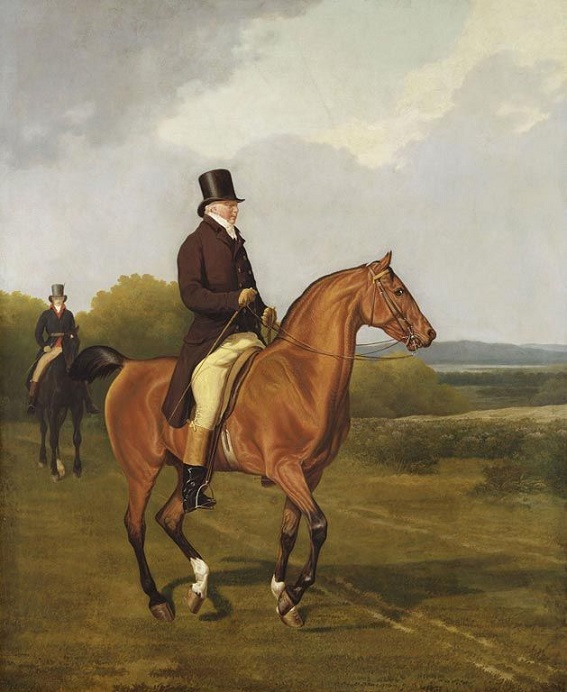 Portrait of Francis Augustus Eliott, Second Baron Heathfield